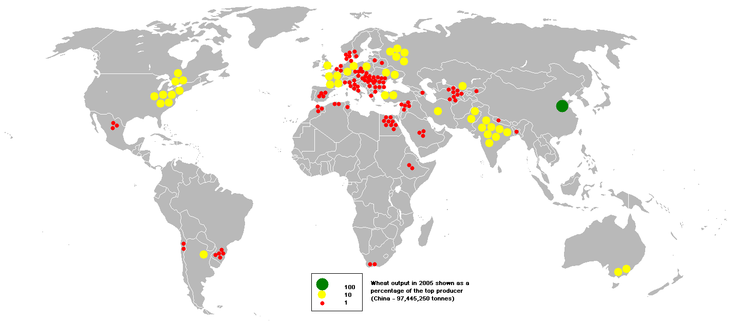 This bubble map shows the global distribution of wheat output in 2005 as a percentage of the top producer (China - 97,445,250 tonnes). This map is consistent with incomplete set of data too as long as the top producer is known. It resolves the accessibility issues faced by colour-coded maps that may not be properly rendered in old computer screens. Data was extracted on 14th June 2007 from Based on :Image:BlankMap-World.png